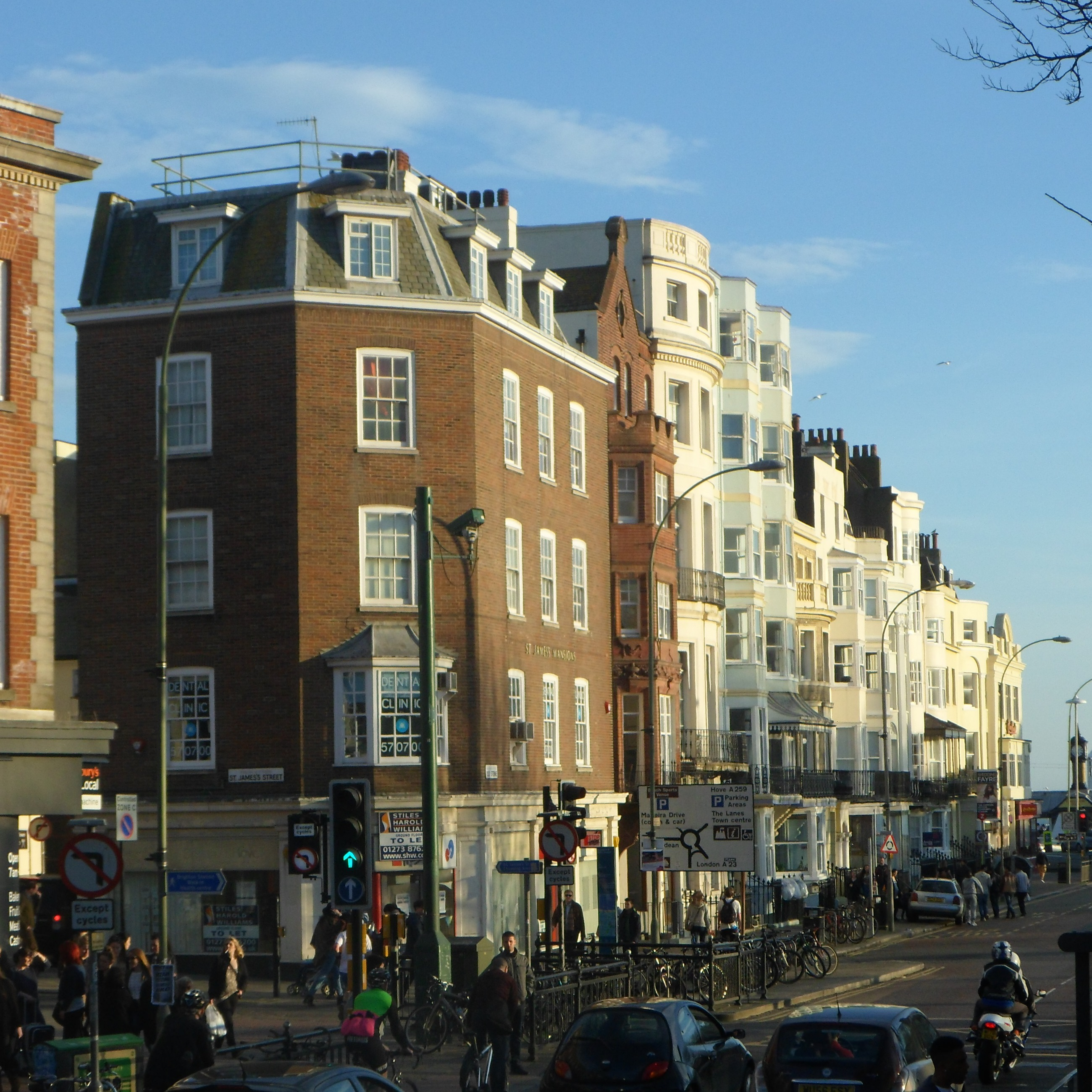 St James's Mansions (foreground) and other buildings on the east side of Old Steine, Brighton, City of Brighton and Hove, East Sussex.